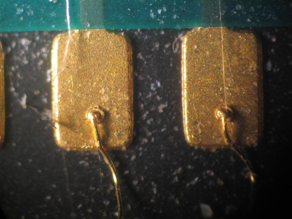 Description: contact pad, ball wire bonding Author, date of creation: selfmade by Shaddack, 5 December 2005 Source: self-made Copyright: Public Domain (PD) Comments: From some sort of an intelligent display, gold wire on a gold contact pad